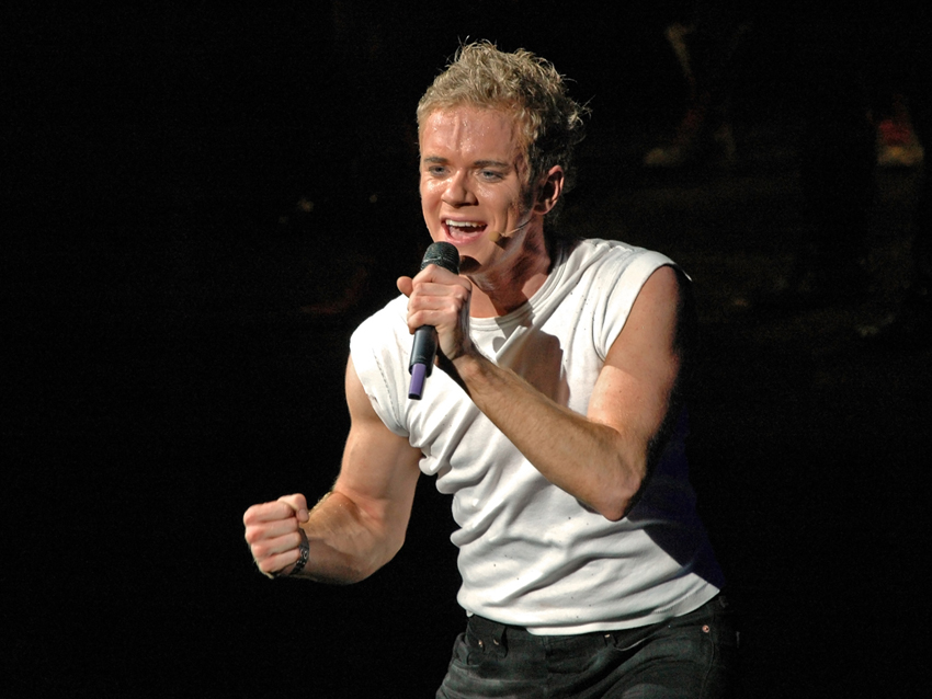 Peter Johansson performing one of many Queen Classics during the Queen Musical We Will Rock You in Dominion Theatre, London 2006.